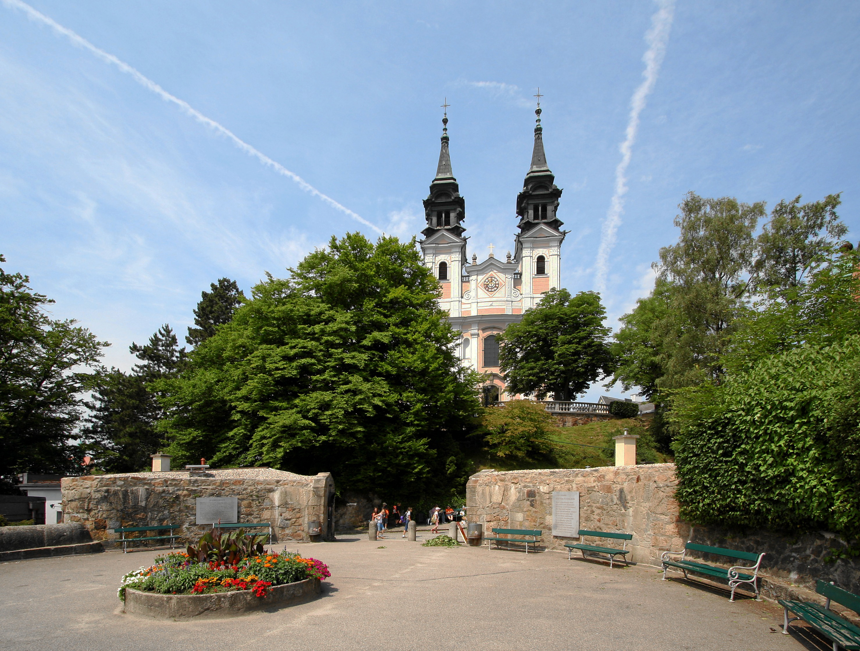 Viewpoint with pilgramage church on the Pöstlingberg in Linz, Austria